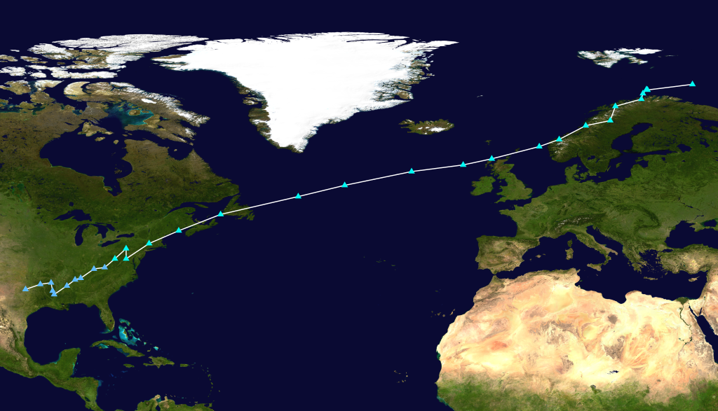 Track map of Storm Ciara of the 2019-20 European windstorm season. The points show the location of the storm at 6-hour intervals. The colour represents the storm's maximum sustained wind speeds as classified in the Saffir–Simpson scale (see below), and the shape of the data points represent the nature of the storm, according to the legend below. Saffir–Simpson scale Tropical depression≤38 mph≤62 km/h Category 3111–129 mph178–208 km/h Tropical storm39–73 mph63–118 km/h Category 4130–156 mph209–251 km/h Category 174–95 mph119–153 km/h Category 5≥157 mph≥252 km/h Category 296–110 mph154–177 km/h Unknown Storm type Tropical cyclone Subtropical cyclone Extratropical cyclone / Remnant low / Tropical disturbance / Monsoon depression